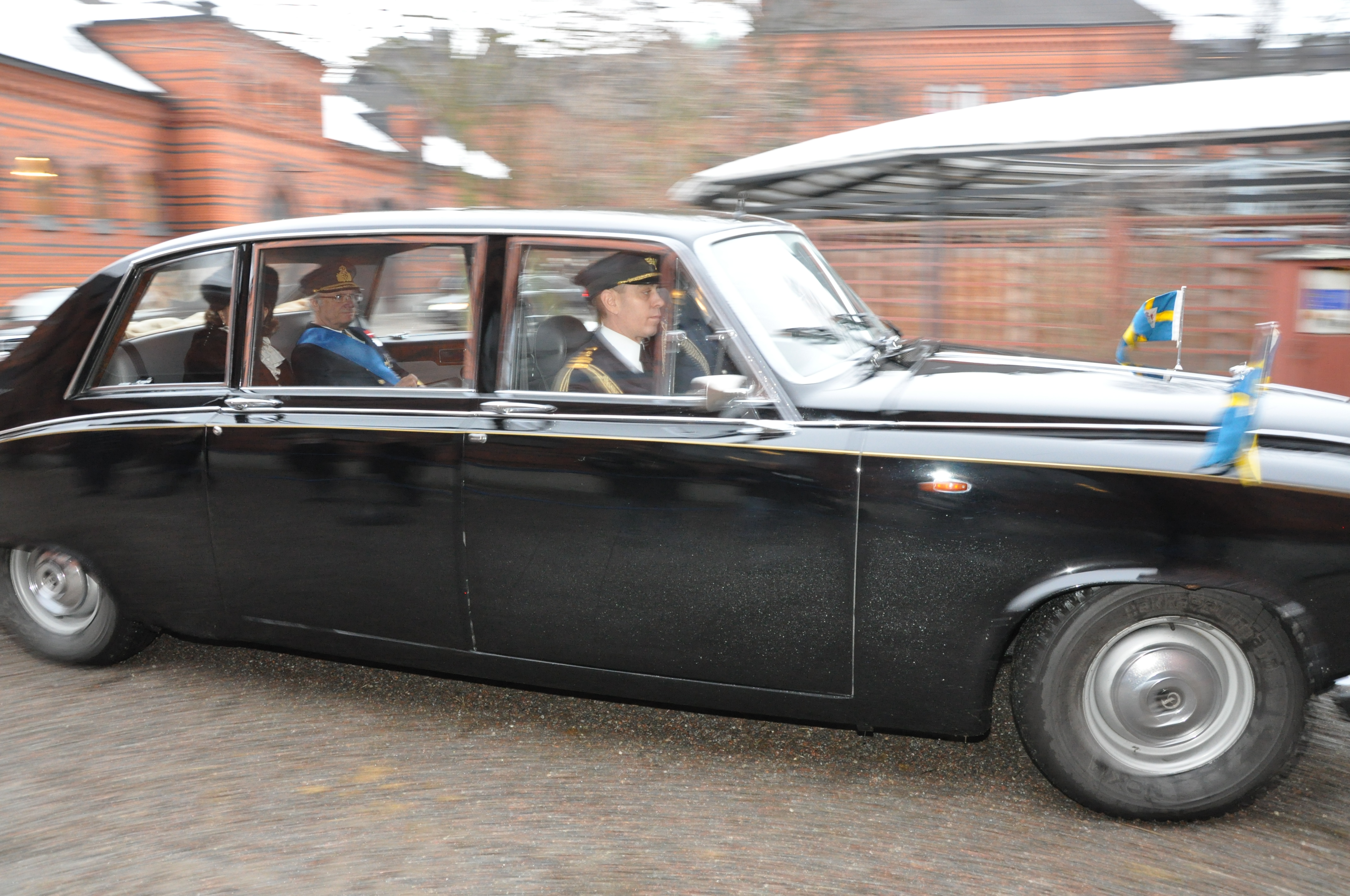 The king and queen arrives at the royal mews